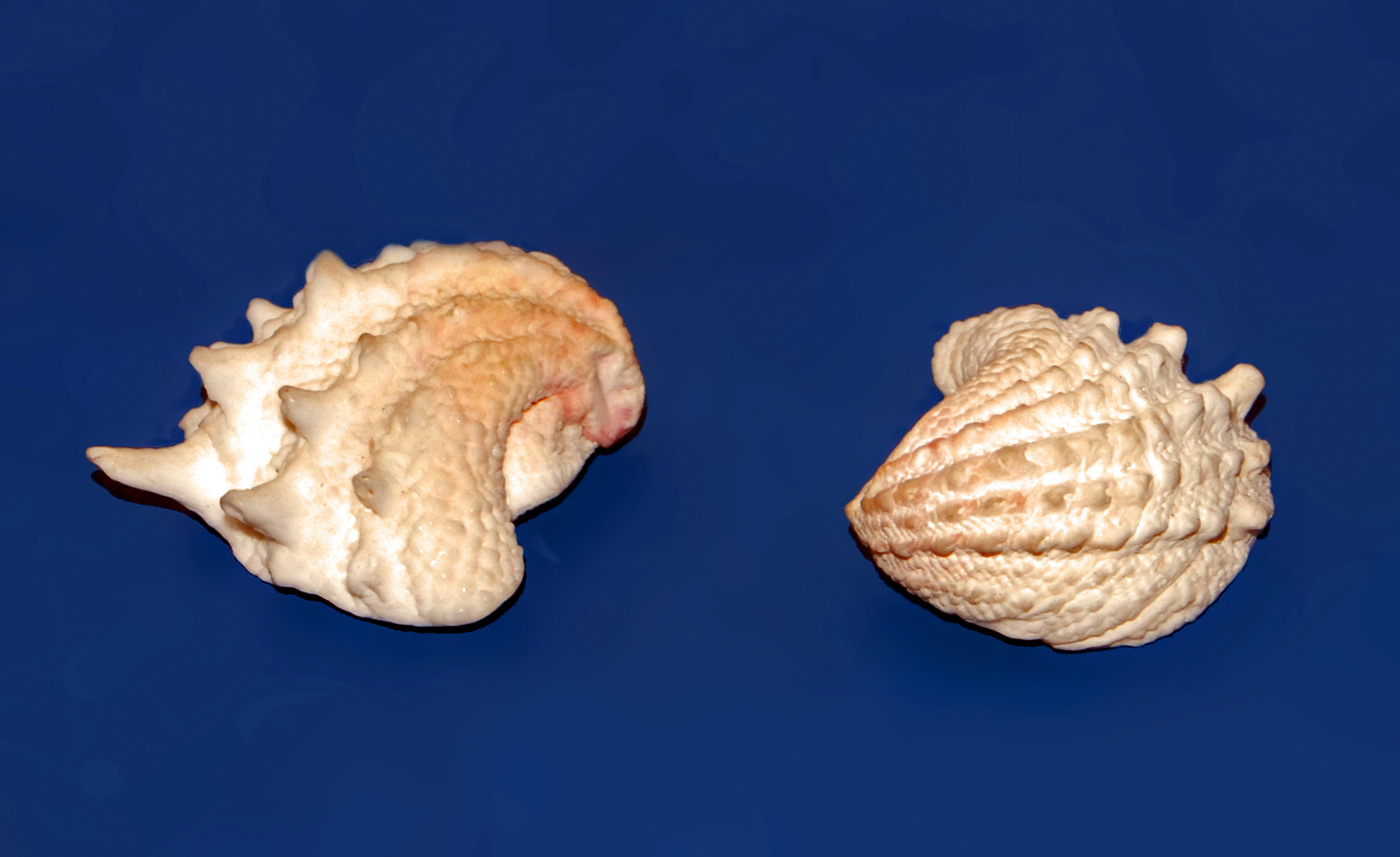 Shell of Arcinella arcinella from Florida at the Museo Civico di Storia Naturale di Milano